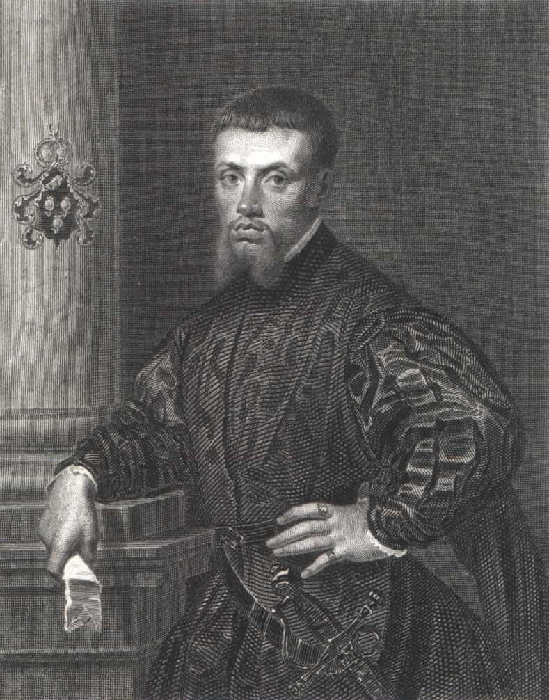 Engraving from a Jan van Calcar painting of Melchior von Brauweiler